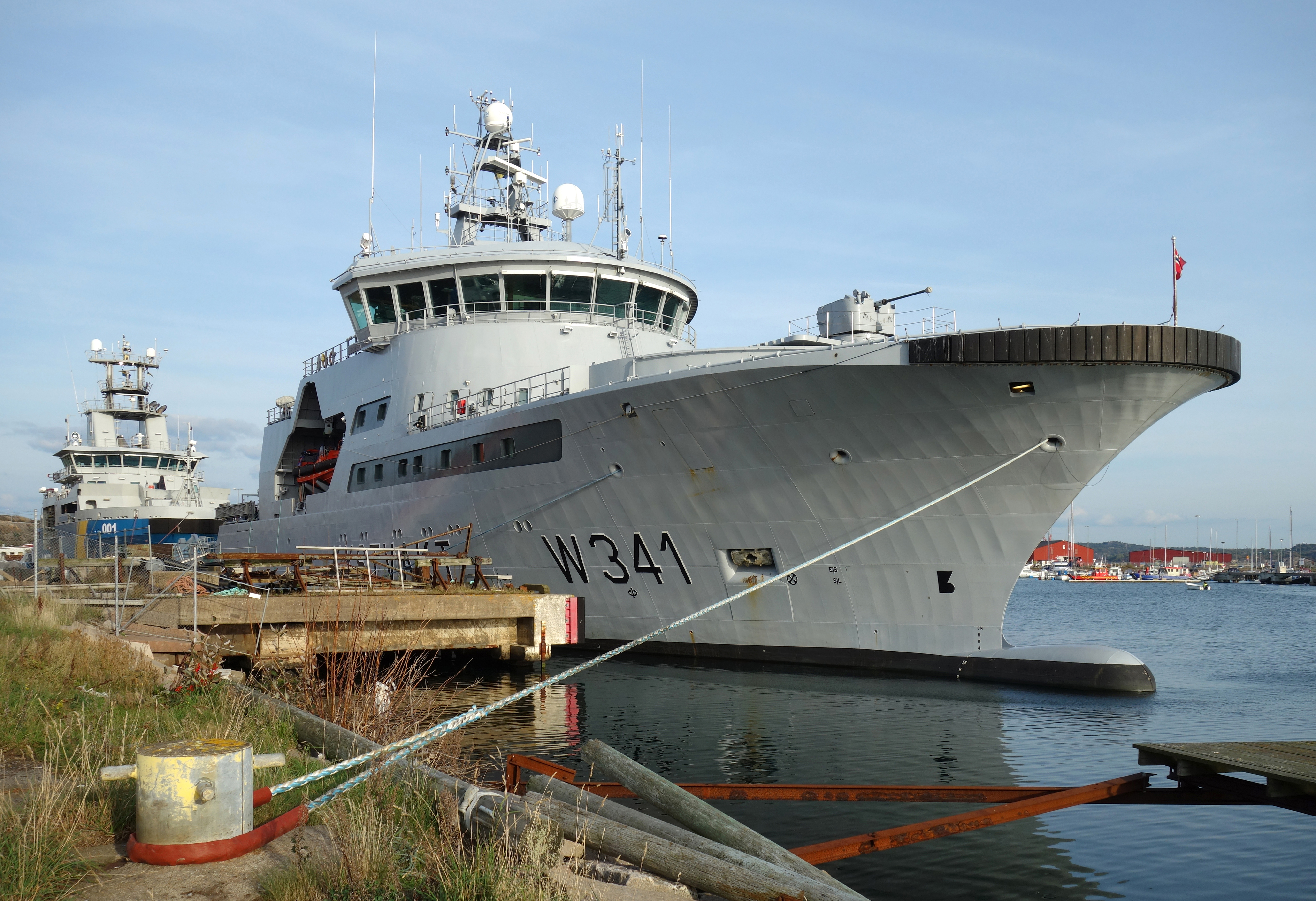 KV Bergen W341 ship of the Norwegian Coast Guard in Lysekil, Sweden during a joint Scandinavian oil spill response exercise in the North Sea outside Lysekil on 21 September 2016.